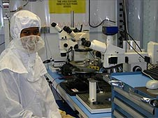 Danielle Wood is an Assistant Professor in the MIT Media Lab, where she directs the research group Space Enabled.